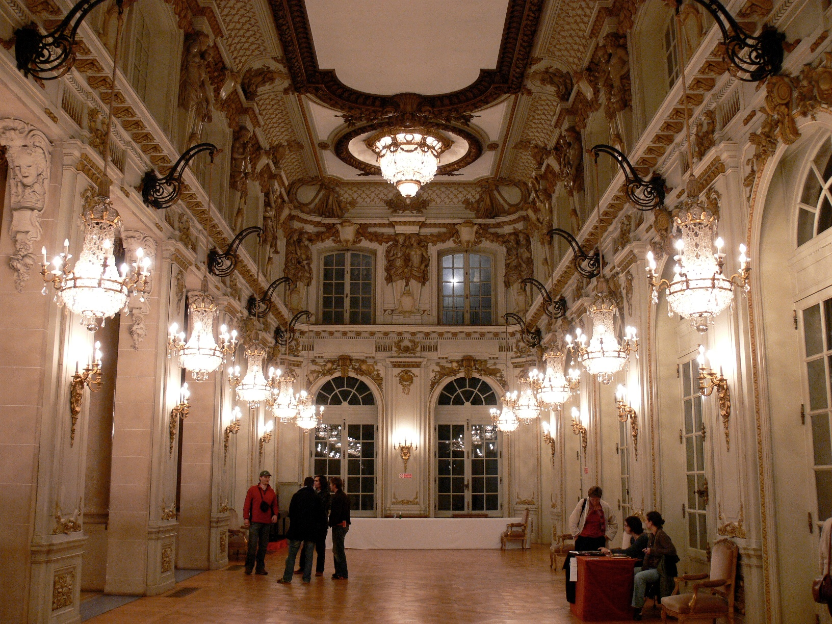 Hall of the National Opera of Lorraine in Nancy, France